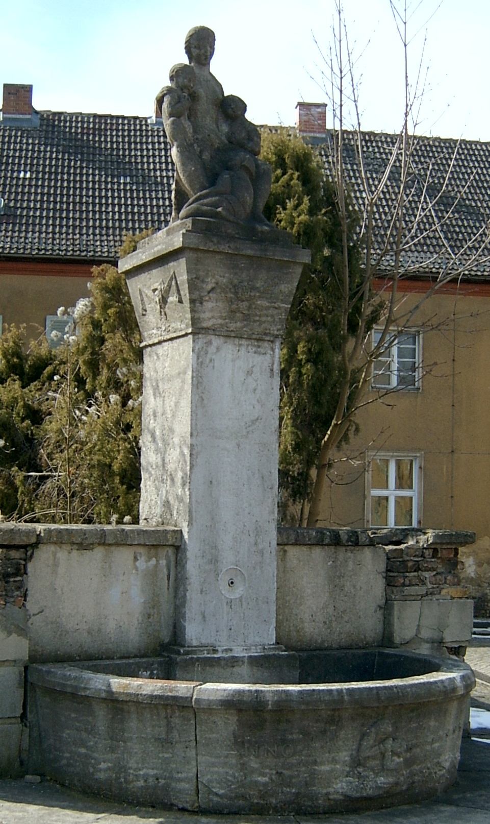 Caritas Fountain in Frankfurt (Oder), Karl-Sobkowski-Straße